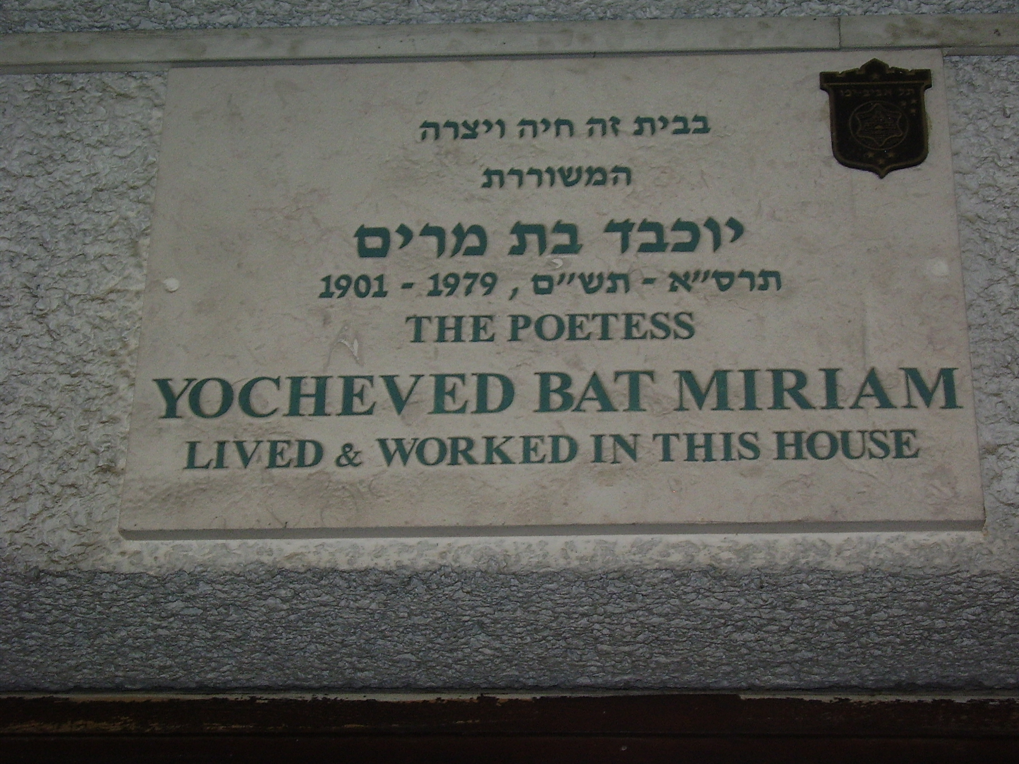 memorial plaque on the poetess yocheved bat miriam house in tel aviv לוחית זיכרון על ביתה של המשוררת יוכבד בת מרים ברח' דיזנגוף 46 בתל אביב